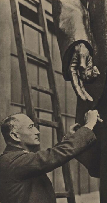 Czech sculptor Otakar Španiel working on Masaryk monument, 1928